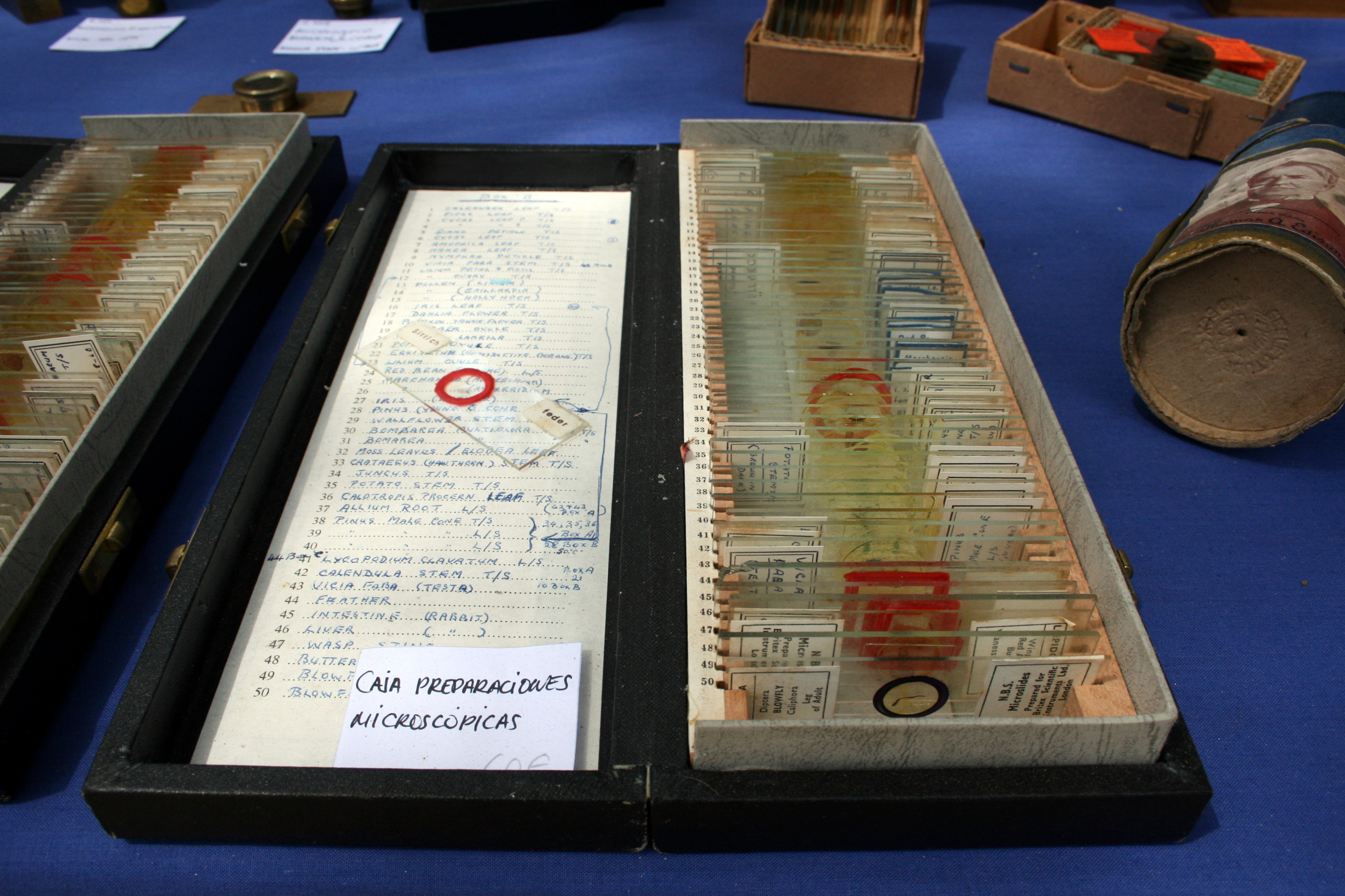 Box with prepared specimens mounted on microscope slides. This photograph was taken during an antiques fair in Cambados, Galicia, Spain.